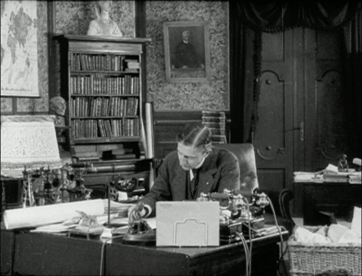 Screenshot from the Danish silent film "Konseilspræsident C. Th. Zahle paa Politikens Redaktion" featuring the journalist Anker Kirkeby getting a visit by the prime minister Carl Theodor Zahle.